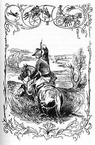 Series of 16 illustrations for Münchhausen by Gottfried August Bürger.